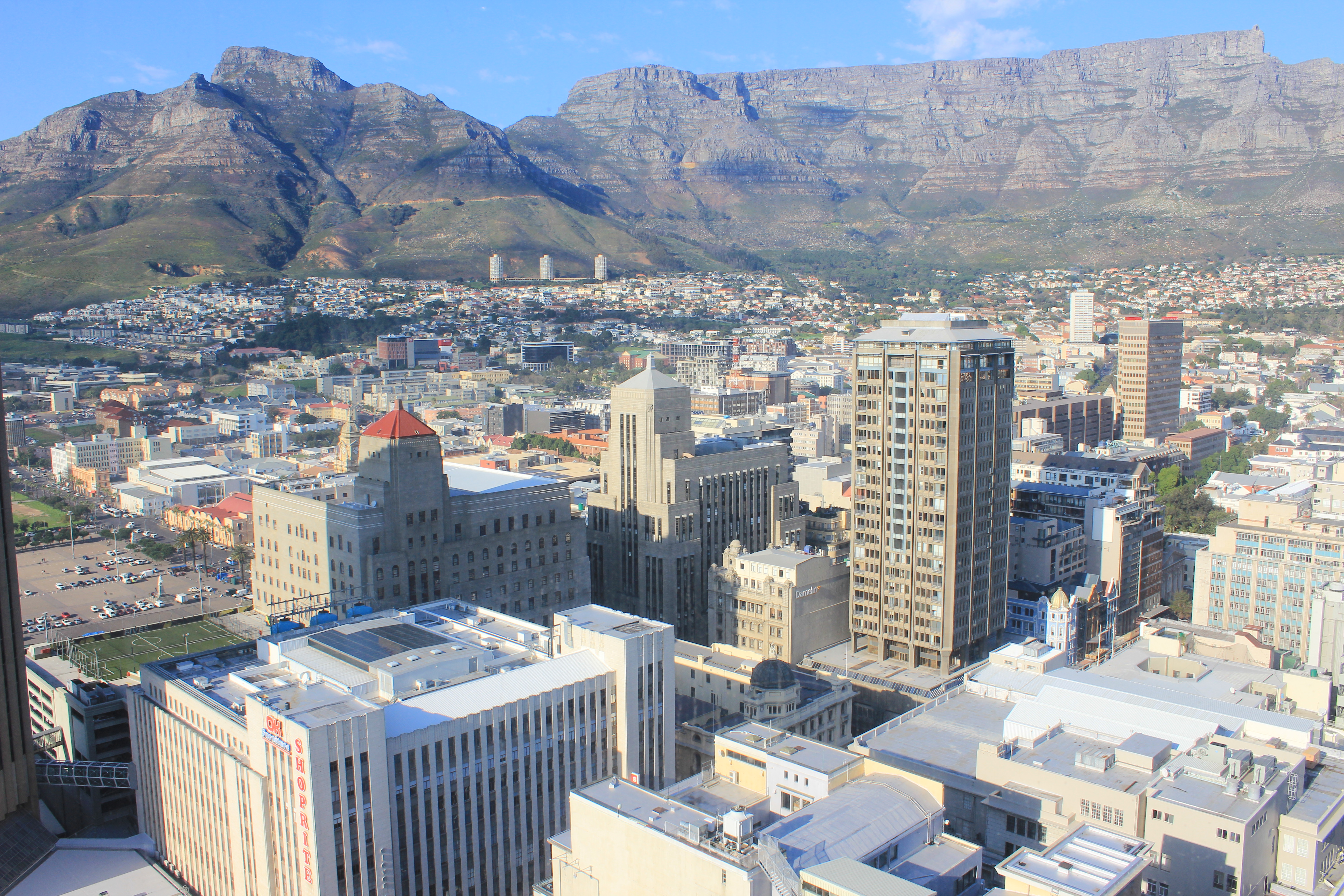 Cape Town, South Africa